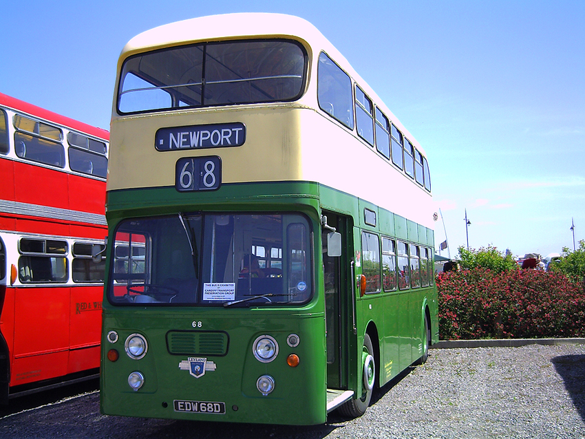 Leyland Atlantean EDW68D New to Newport Transport now Preserved with the Cardiff Transport Preservation Group